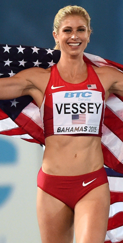 Biography Photo